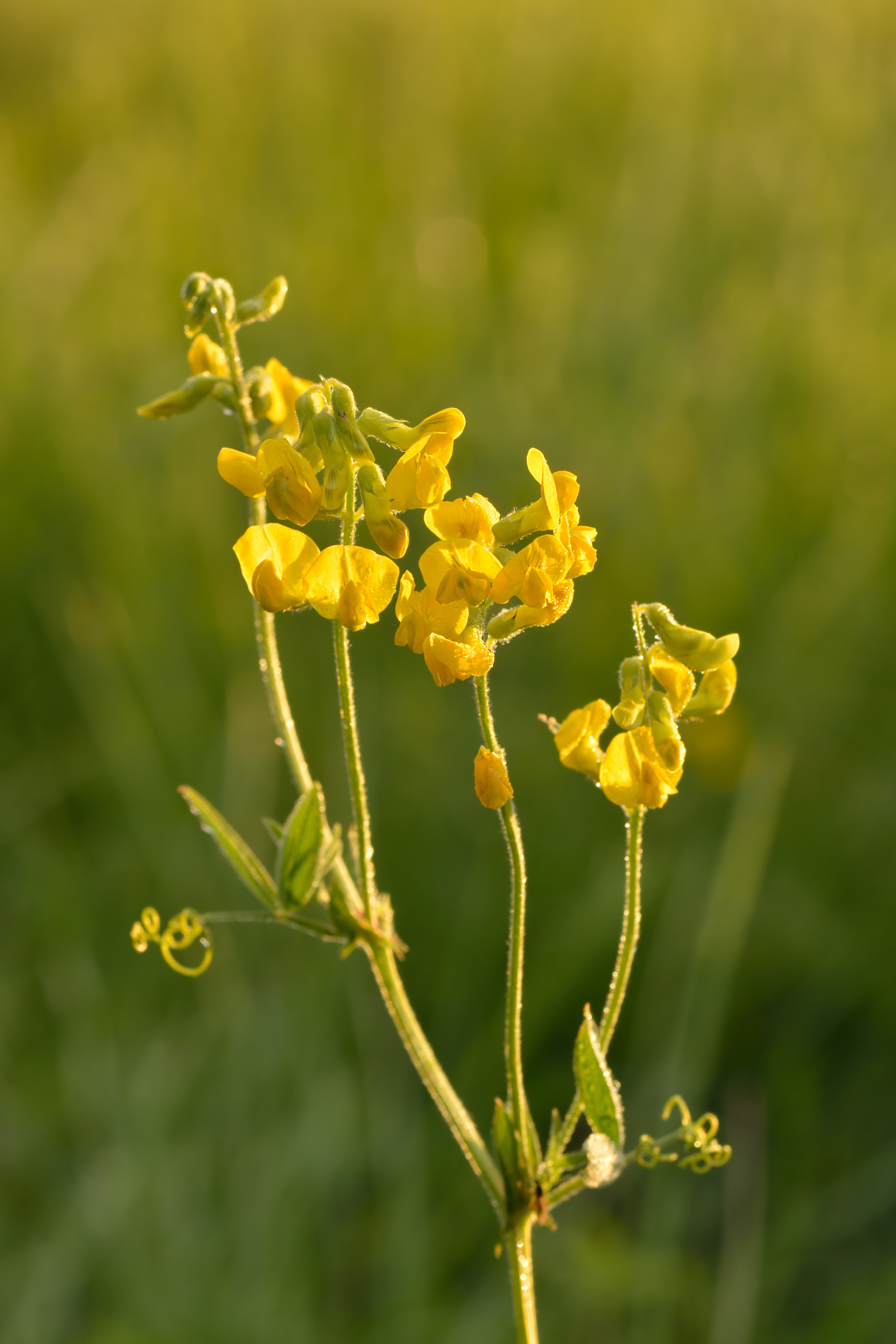 Meadow vetchling (Lathyrus pratensis). Alvar (landform) in Keila, Northwestern Estonia.